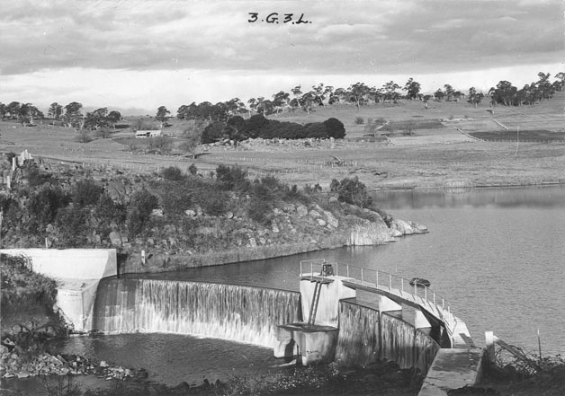 Beardy River Weir, Glen Innes Dated: No date Digital ID: 12932-a012-a012X2443000030 Rights: We'd love to hear from you if you use our photos. Many other photos in our collection are available to view and browse on our website using Photo Investigator.